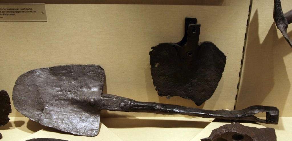 Roman shovels found at the Saalburg Germany, 1st to 3rd century AD